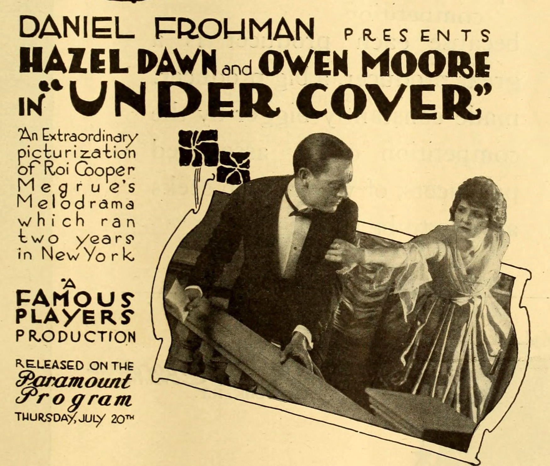 Advertisement in The Moving Picture World for the American film Under Cover (1916) with Owen Moore and Hazel Dawn.